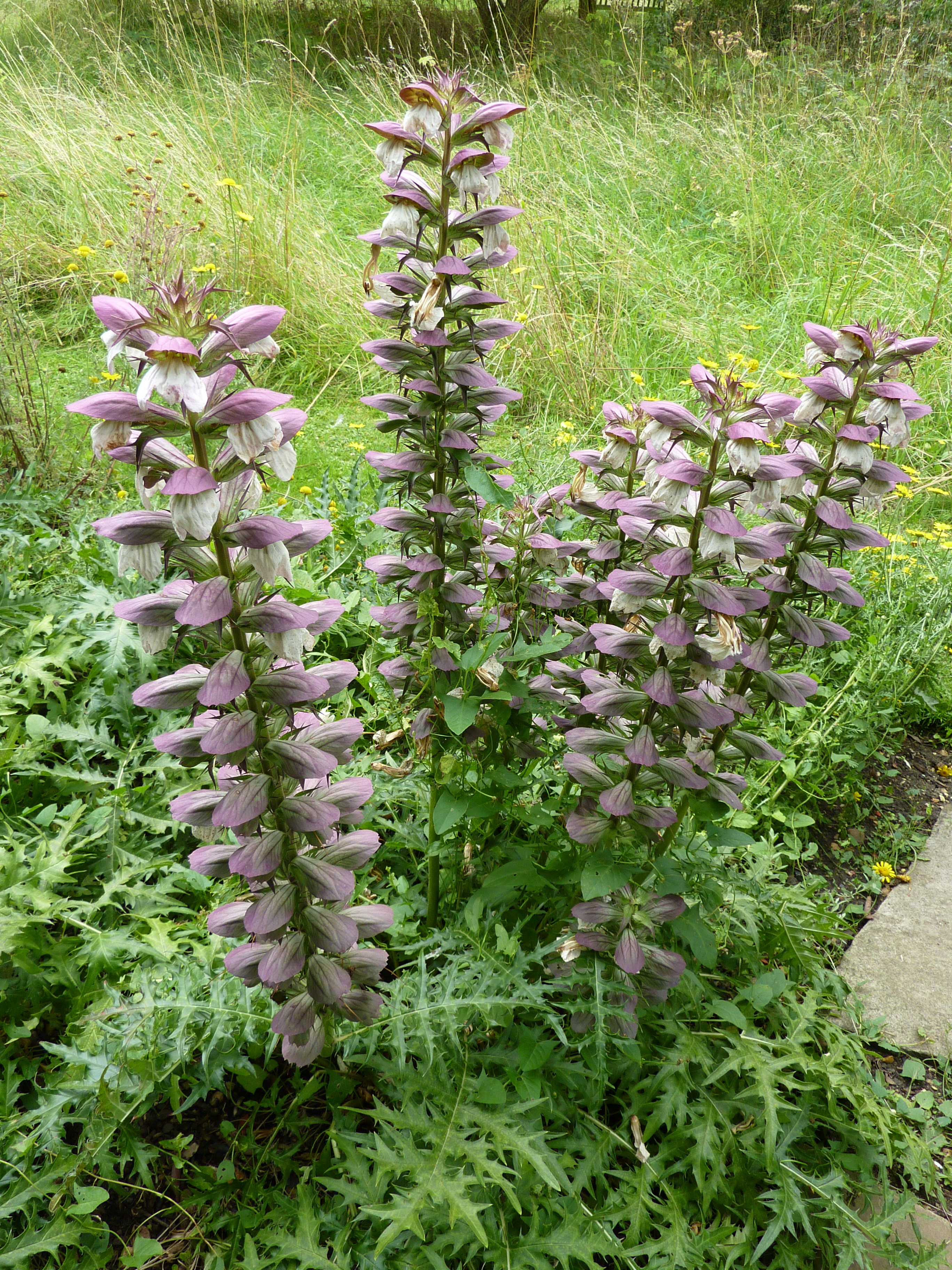 Acanthus spinosus, Cambridge University Botanic Garden